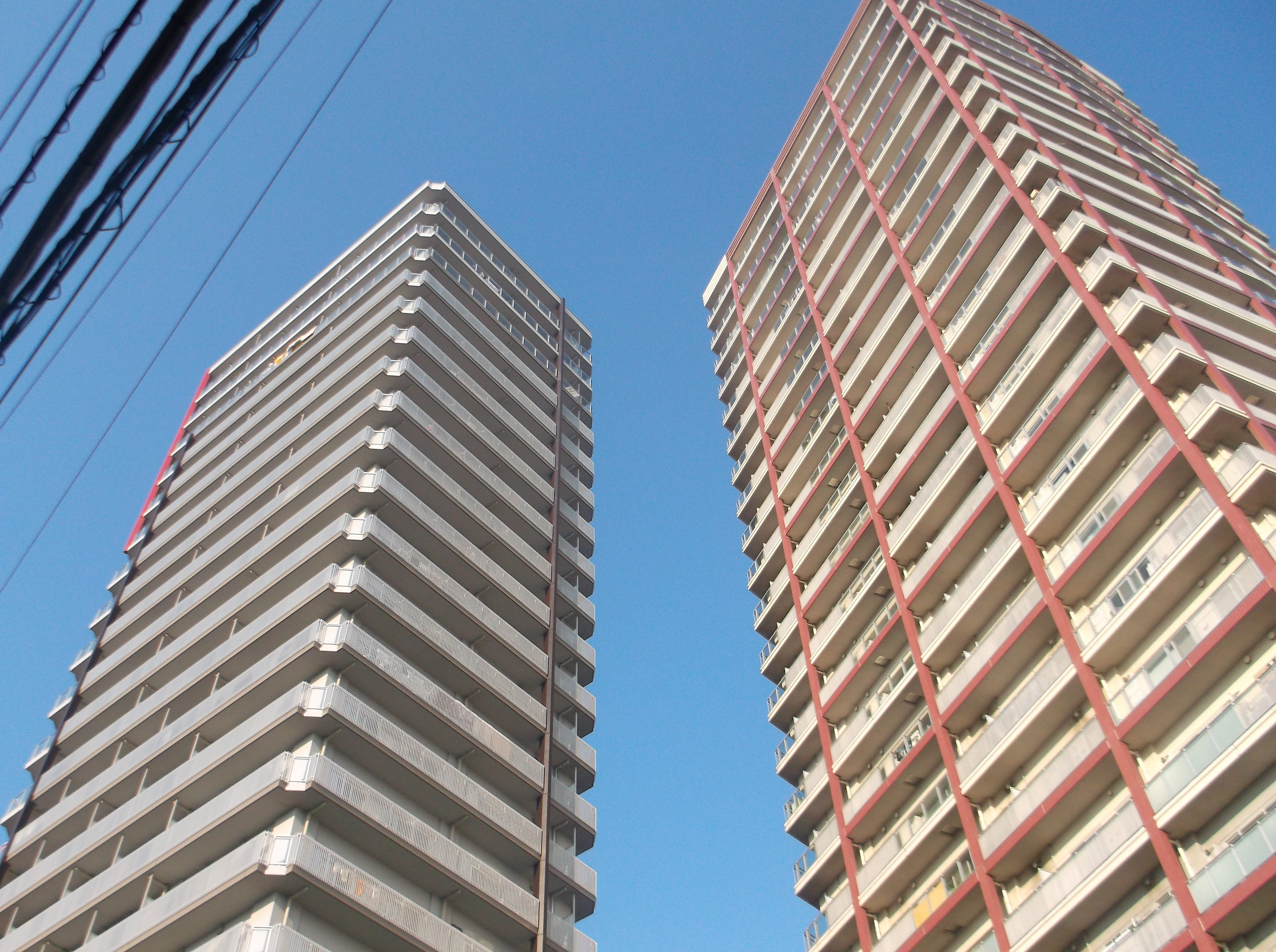 A photo of "Mark Front Tower Hikifune"(left),and "Mark Zero One Tower Hikifune"(right)Kyojima,Sumida-ku,Tokyo,Japan.